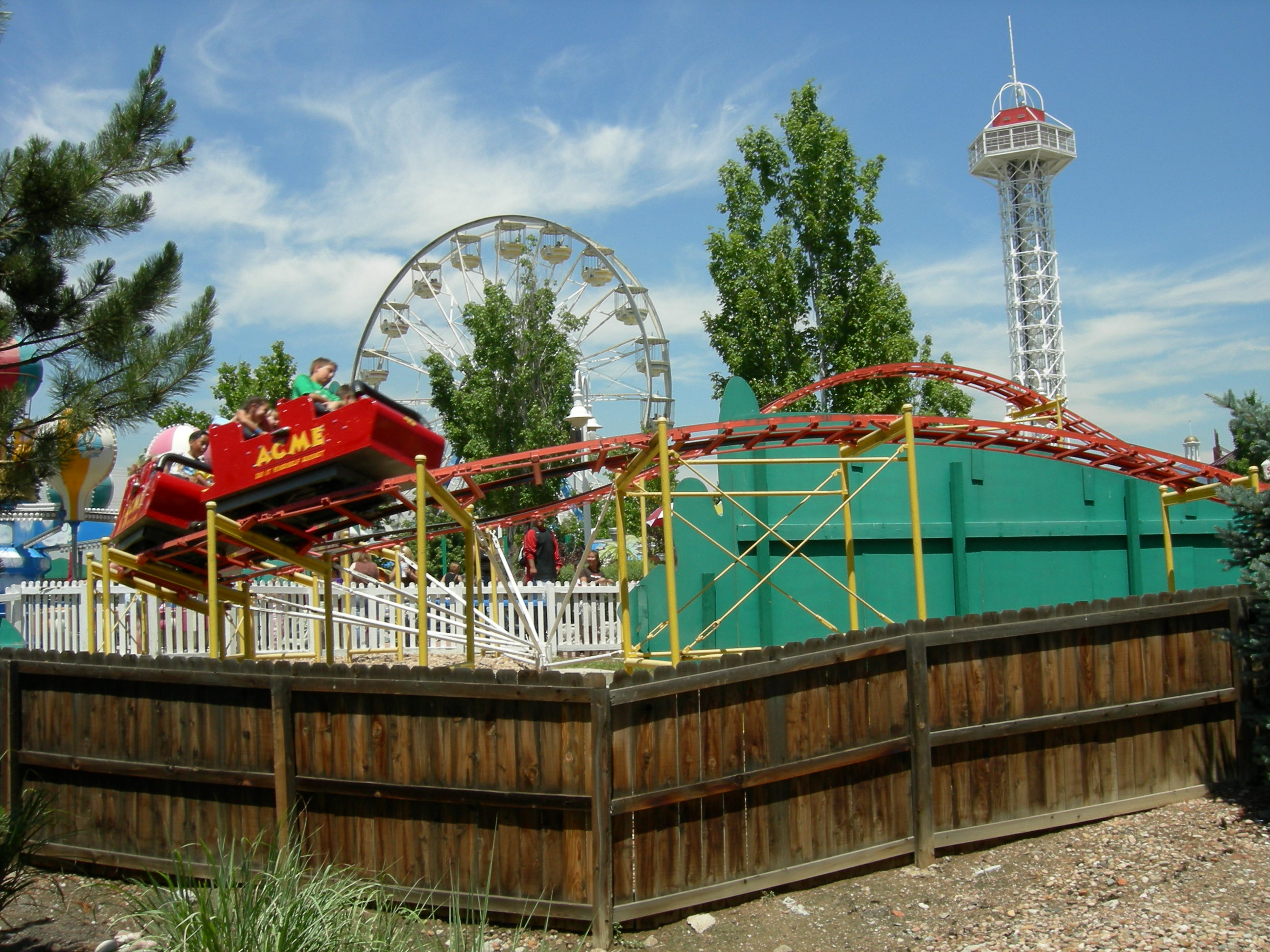 Great Chase at Six Flags Elitch Gardens. Pic taken on July 10th, 2006 by Carl F.